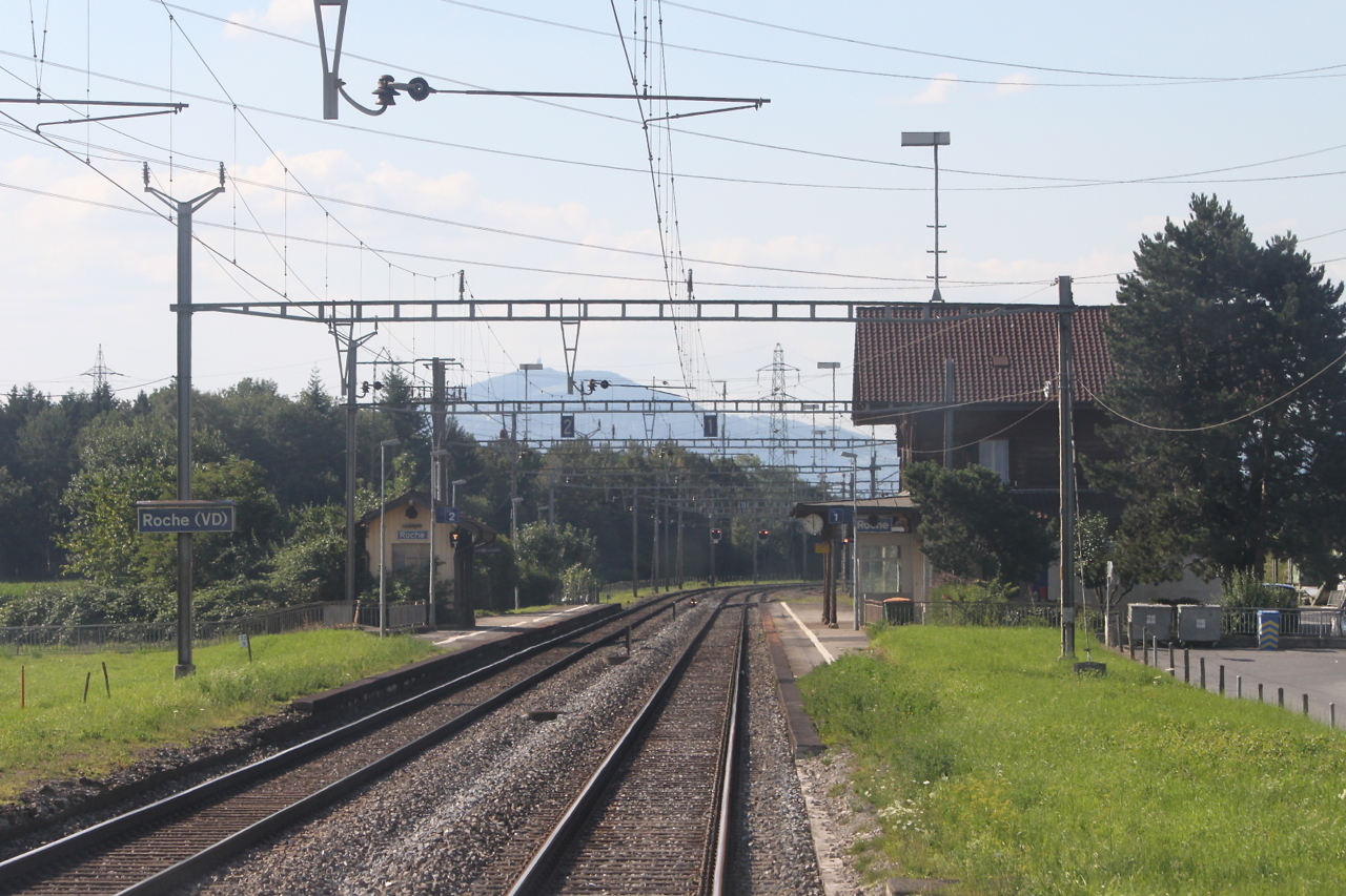 Roche VD train station, seen from the back driving cab of a SBB CFF FFS RBe 540 motor coach.